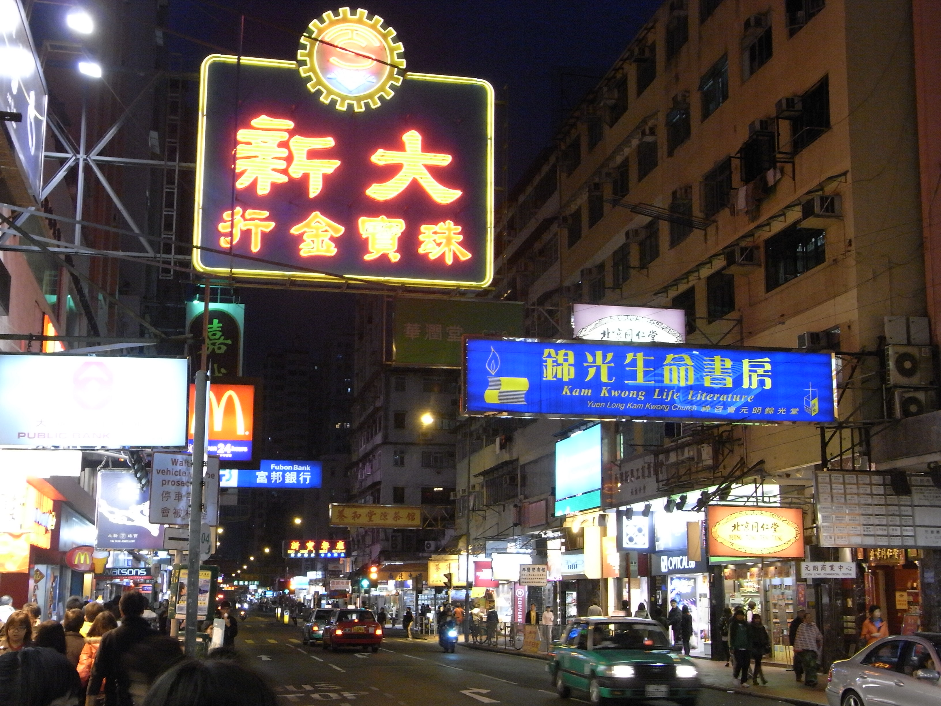 元朗 教育路